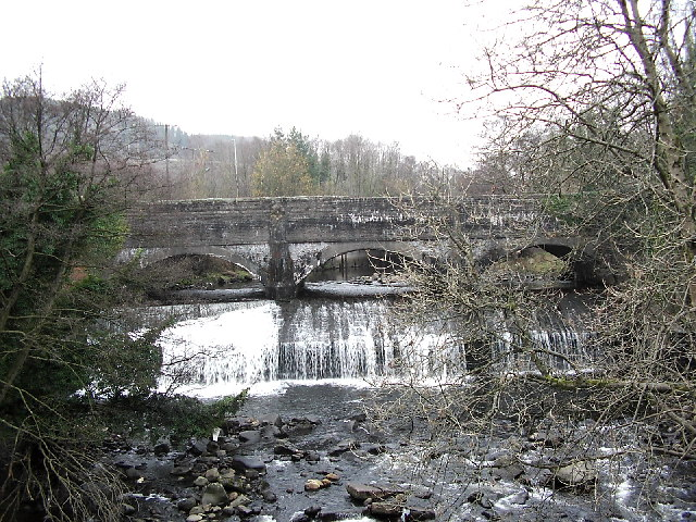 Swansea Canal Aqueduct at Ystalyfera. The Ystalyfera aqueduct is reputed to be the first built with waterproof mortar. The canal has been turned into a cycletrack in Ystalyfera. The structure was recently renovated at great expense. The Swansea Canal was constructed by the Swansea Canal Navigation Company between 1794 and 1798, measuring some 16 miles long and running from Swansea to Hen Neuadd Abercraf.